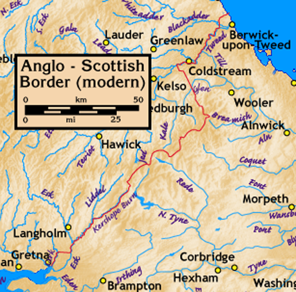 Modern Anglo-Scottish border